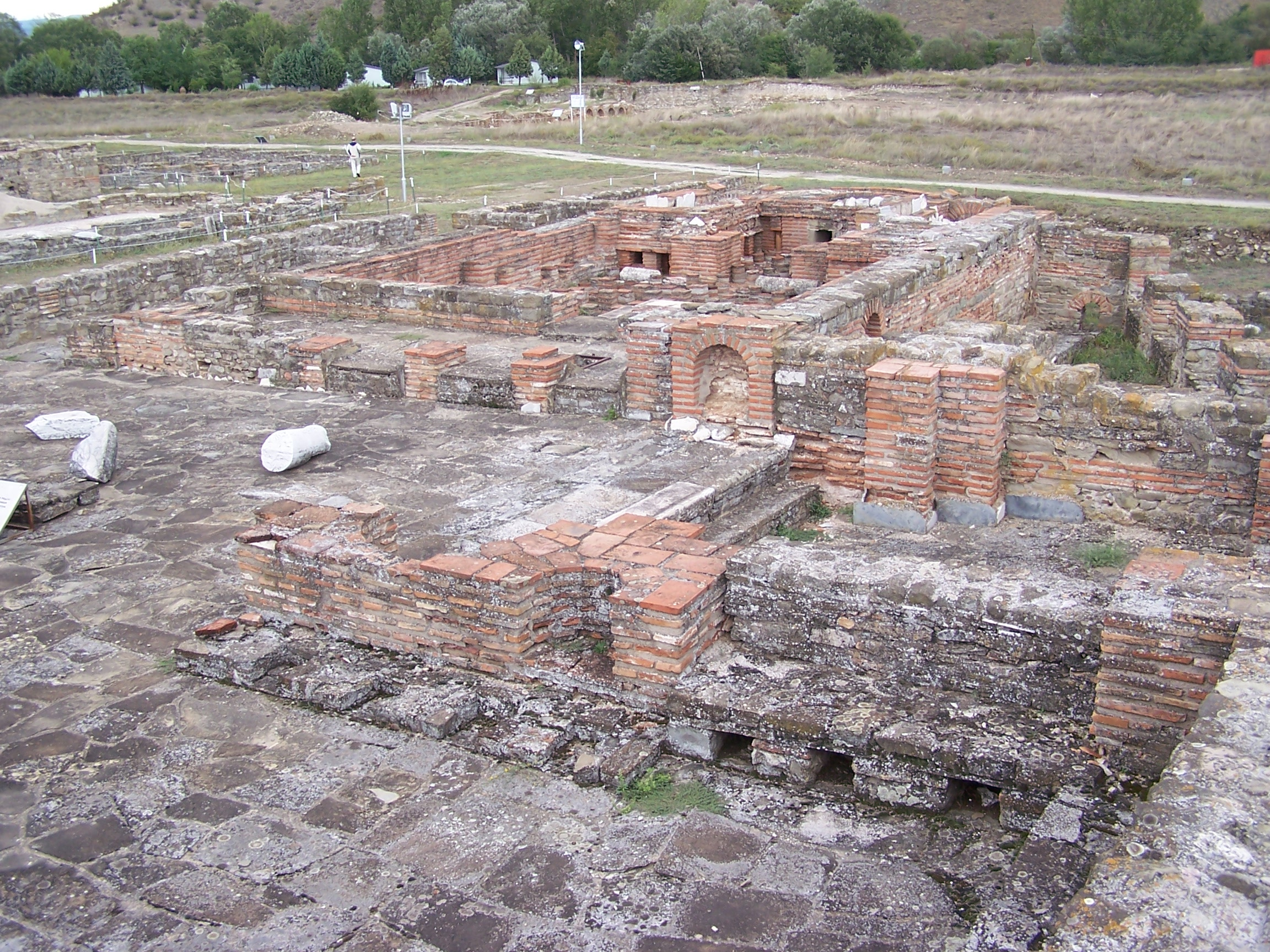 Large bath at archeological site Stobi